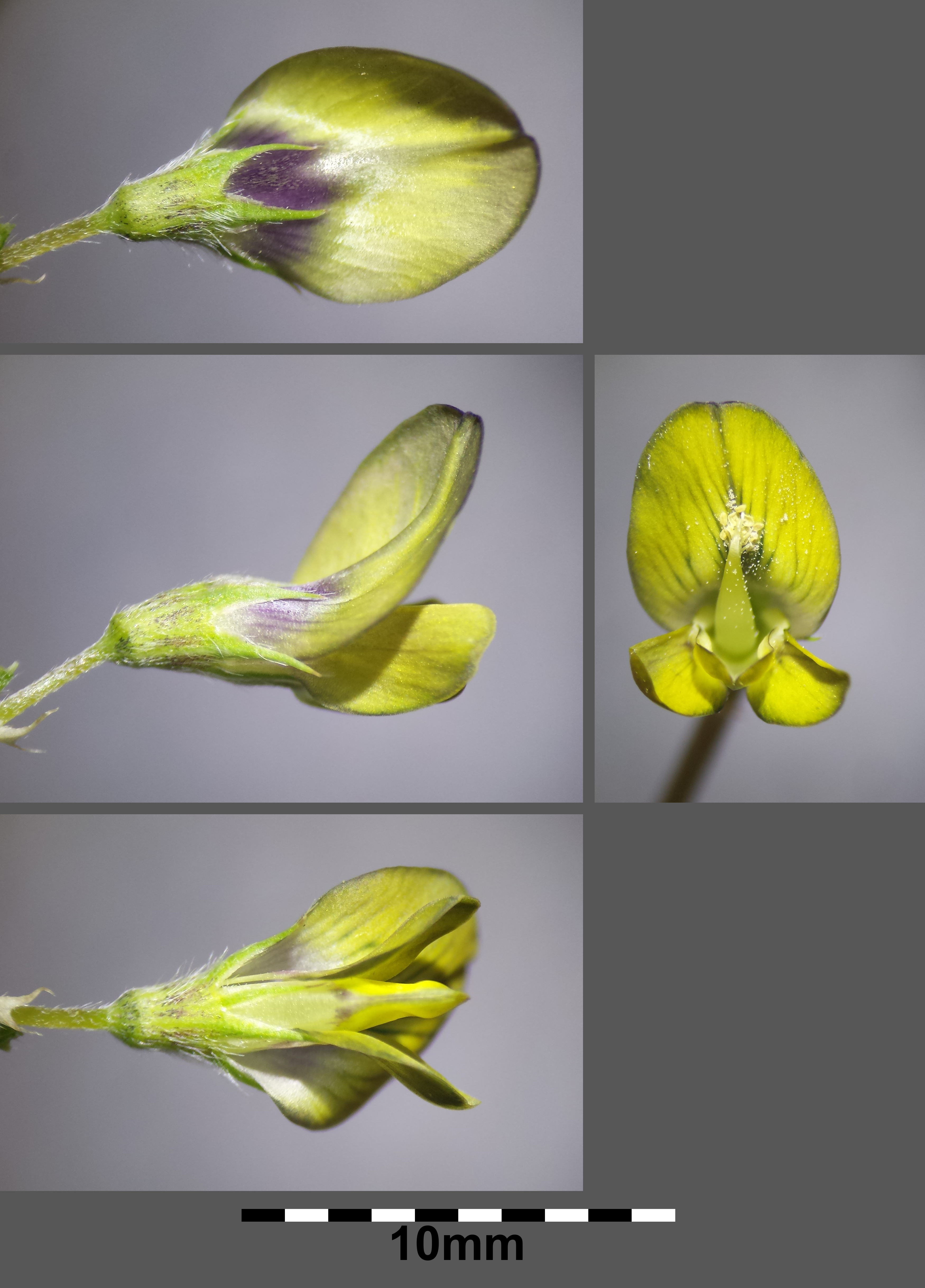 Flower Taxonym: Medicago falcata × M. sativa ss Fischer et al. EfÖLS 2008 ISBN 978-3-85474-187-9 Location: Floridsdorf rail station, Vienna-Floridsdorf - ca. 160 m a.s.l. Habitat: ruderal area